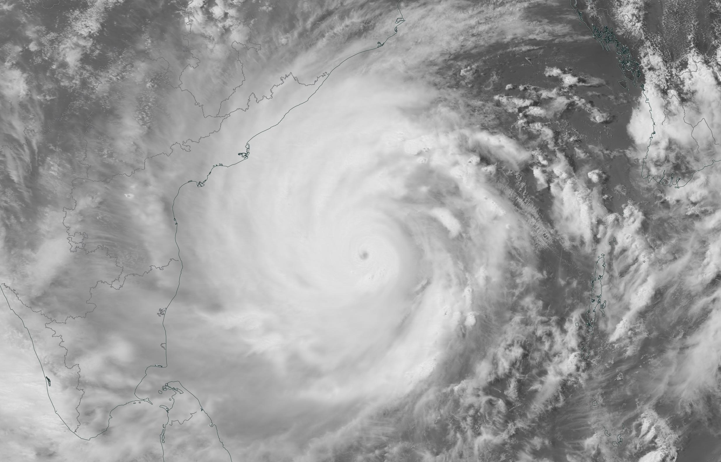 Cyclone Amphan near peak intensity on May 18, 2020. At this point, the system had 1-minute sustained wind speeds of 145 knots (167 mph; 269 km/h) according to the Joint Typhoon Warning Center. The system had a pinhole eye feature with thick, uniform, symmetrical rainbands surrounding a well-structured center. It was at this point that Amphan reached its peak width, at 539 nm (683 mi; 1,100 km).